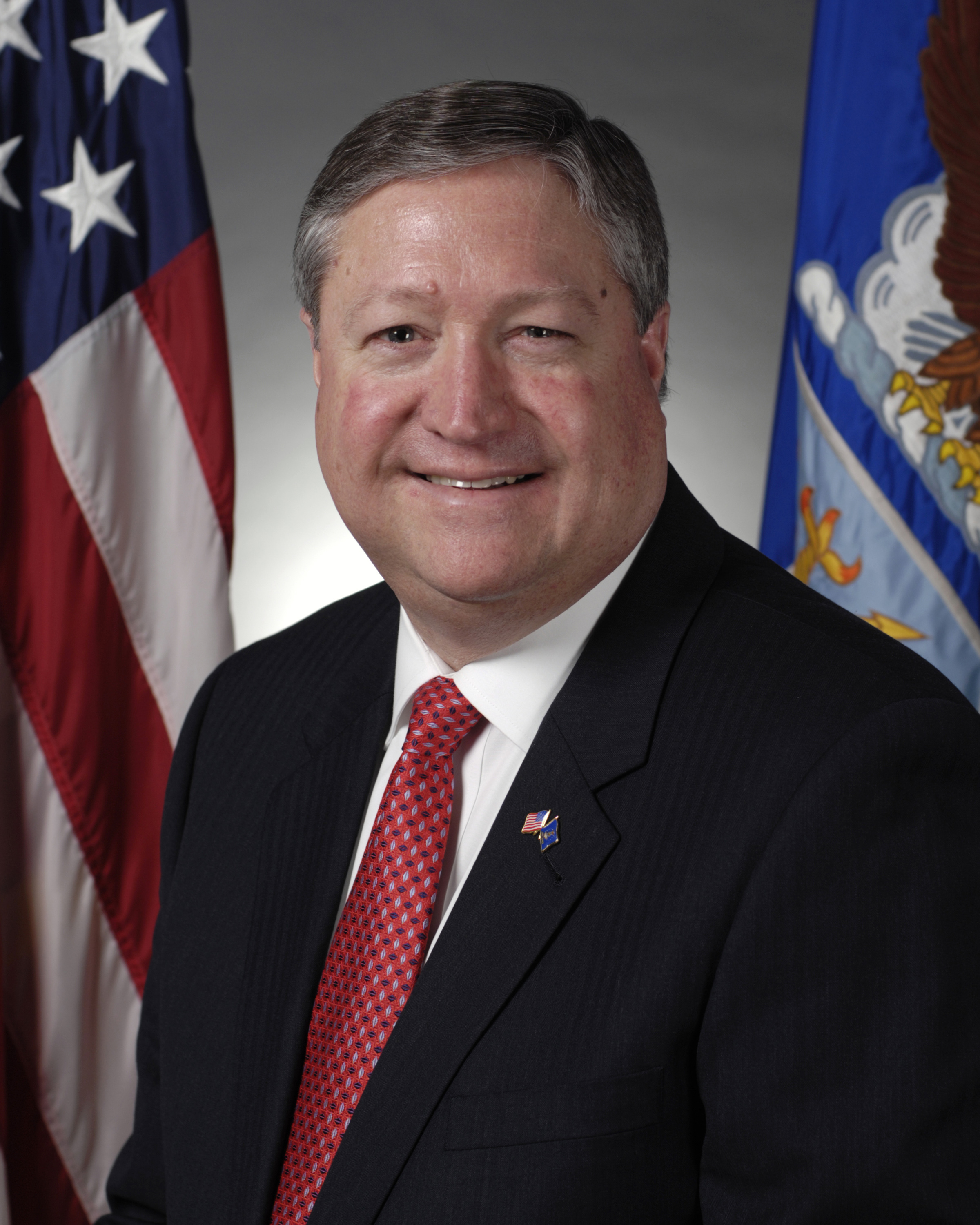 Official portrait of Secretary of the Air Force Michael B. Donley.